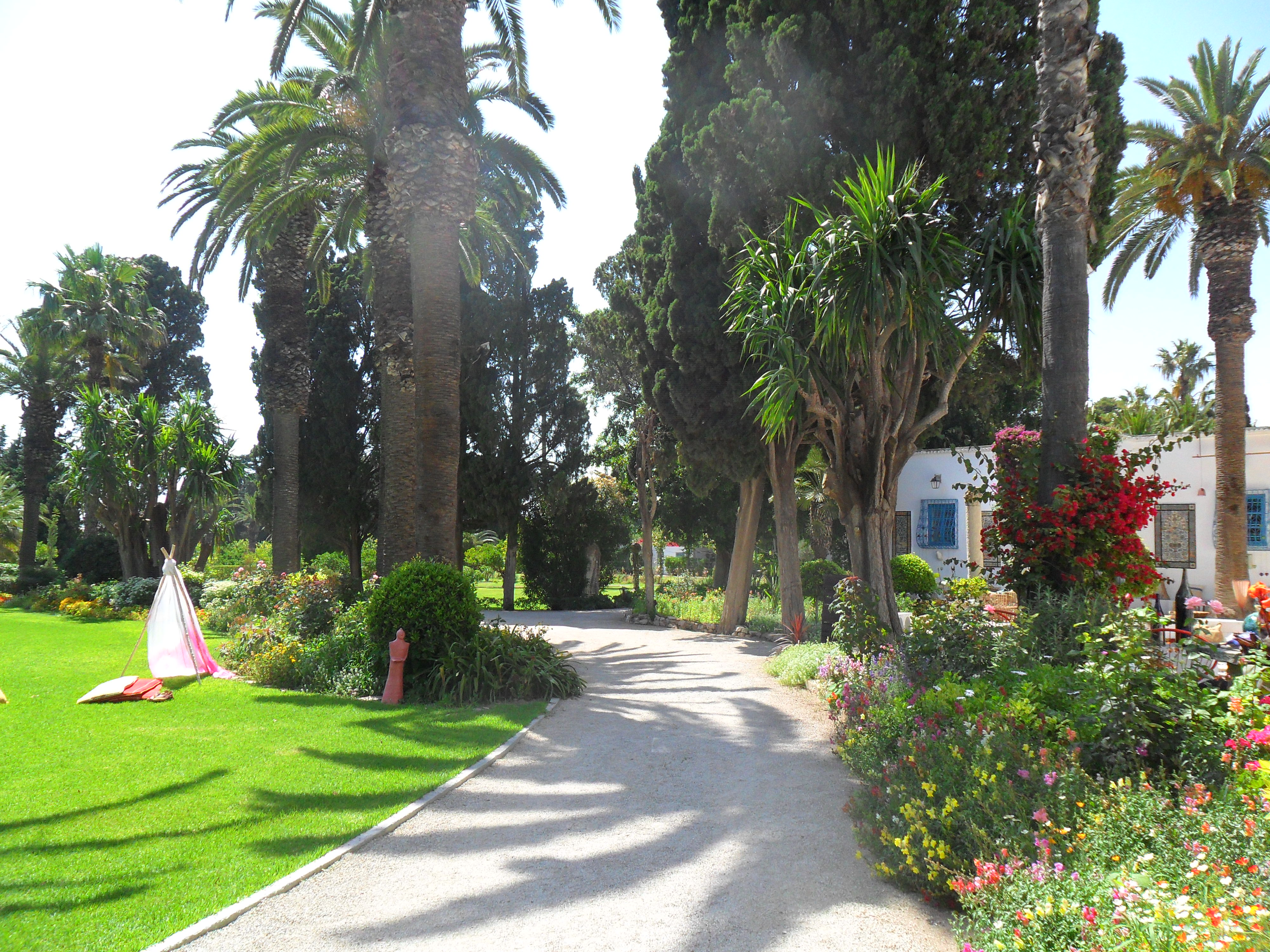 French Ambassador residence park in Tunisia, "Dar El Kamla", La Marsa